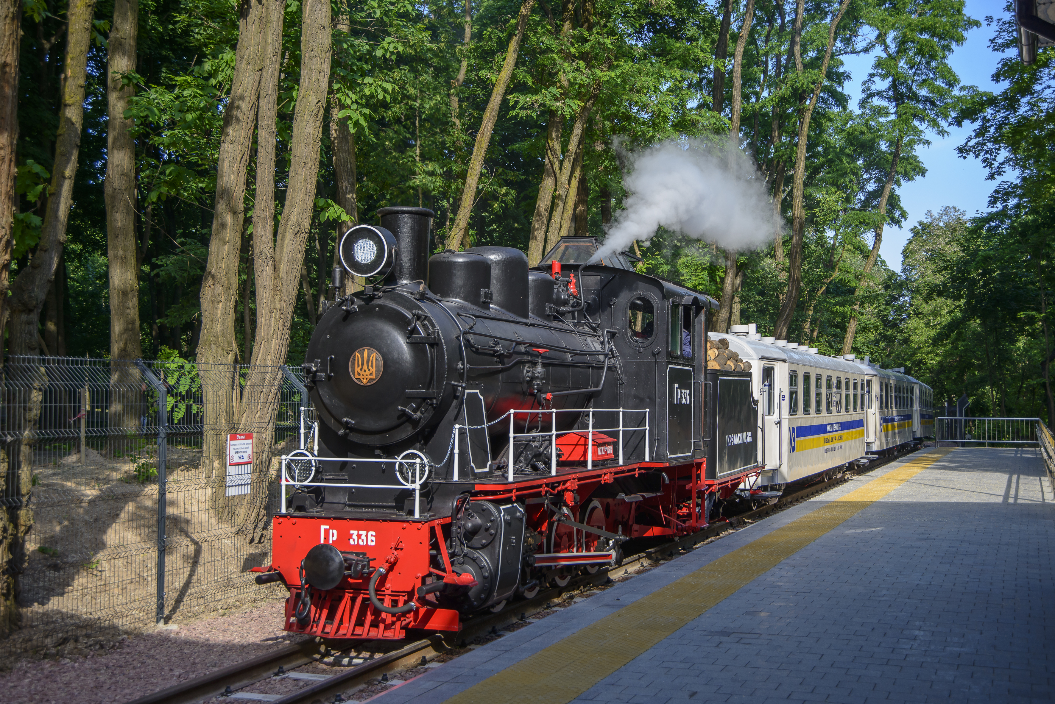 Паровоз Гр-336 на Киевской детской железной дороге